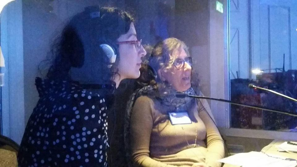 Simultaneous simplification at the conference of Access Israel.